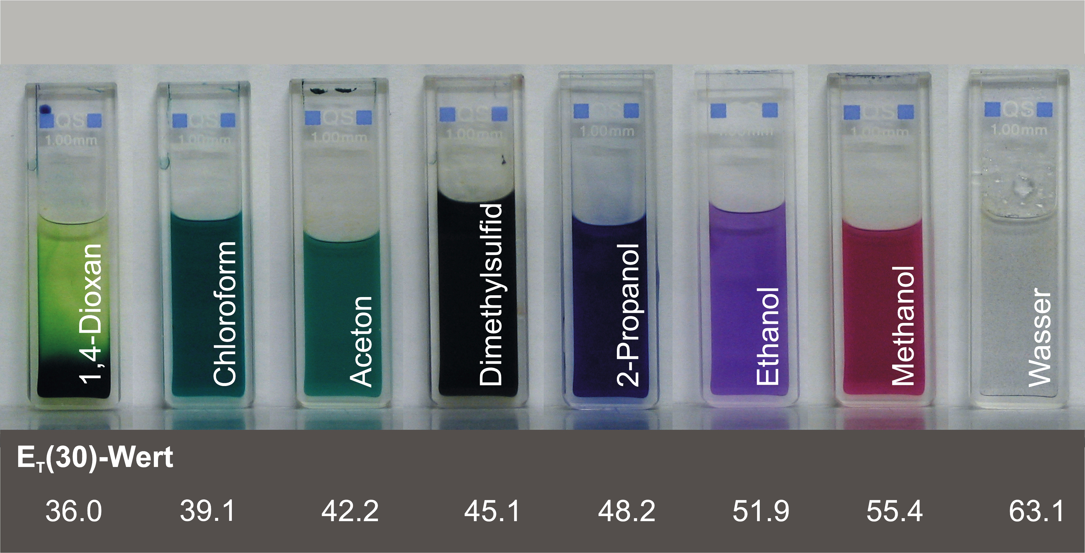 This image shows different solvents in a cuvette. I added Betain 30 which shows a solvatochrom reaction. The ET values are from Reichardt, Christian (1994). "Solvatochromic Dyes as Solvent Polarity Indicators". Chem. Rev. 94 (8): 2319–2358.